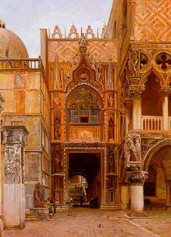 painting of Venetian architecture by J.W. Bunney